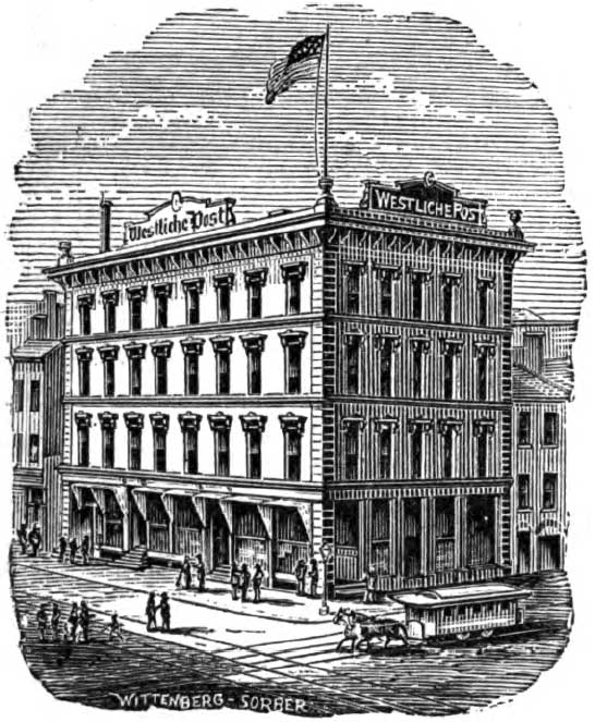 Woodcut print of the Westliche Post building in St. Louis Missouri at Fifth and Market Streets in 1874.